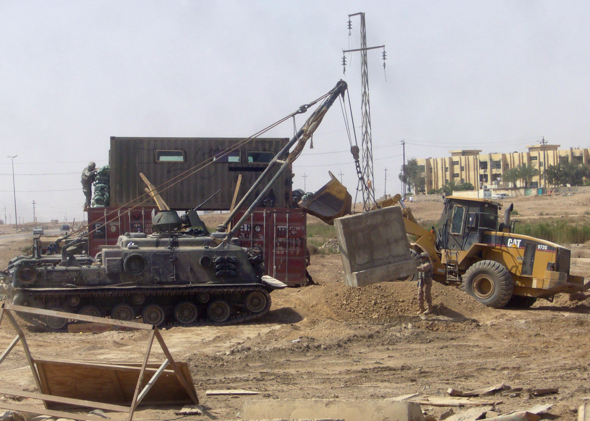 Soldiers of Task Force 1-77 Armor Battalion building "Observation Point Tiger" in Ramadi, Iraq.